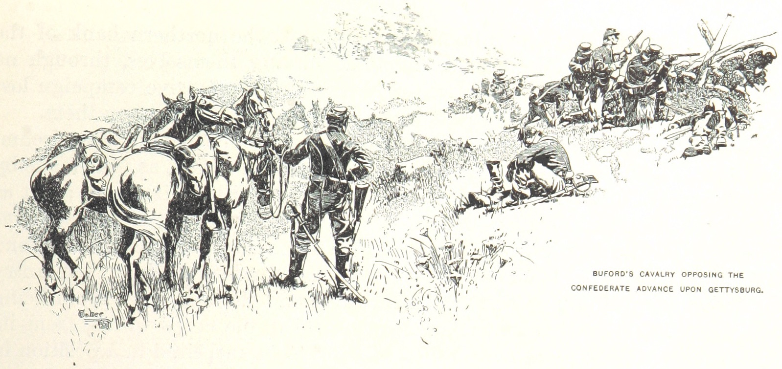 General John Buford's cavalry opposed the Confederate advance during the opening stages of the Battle of Gettysburg.